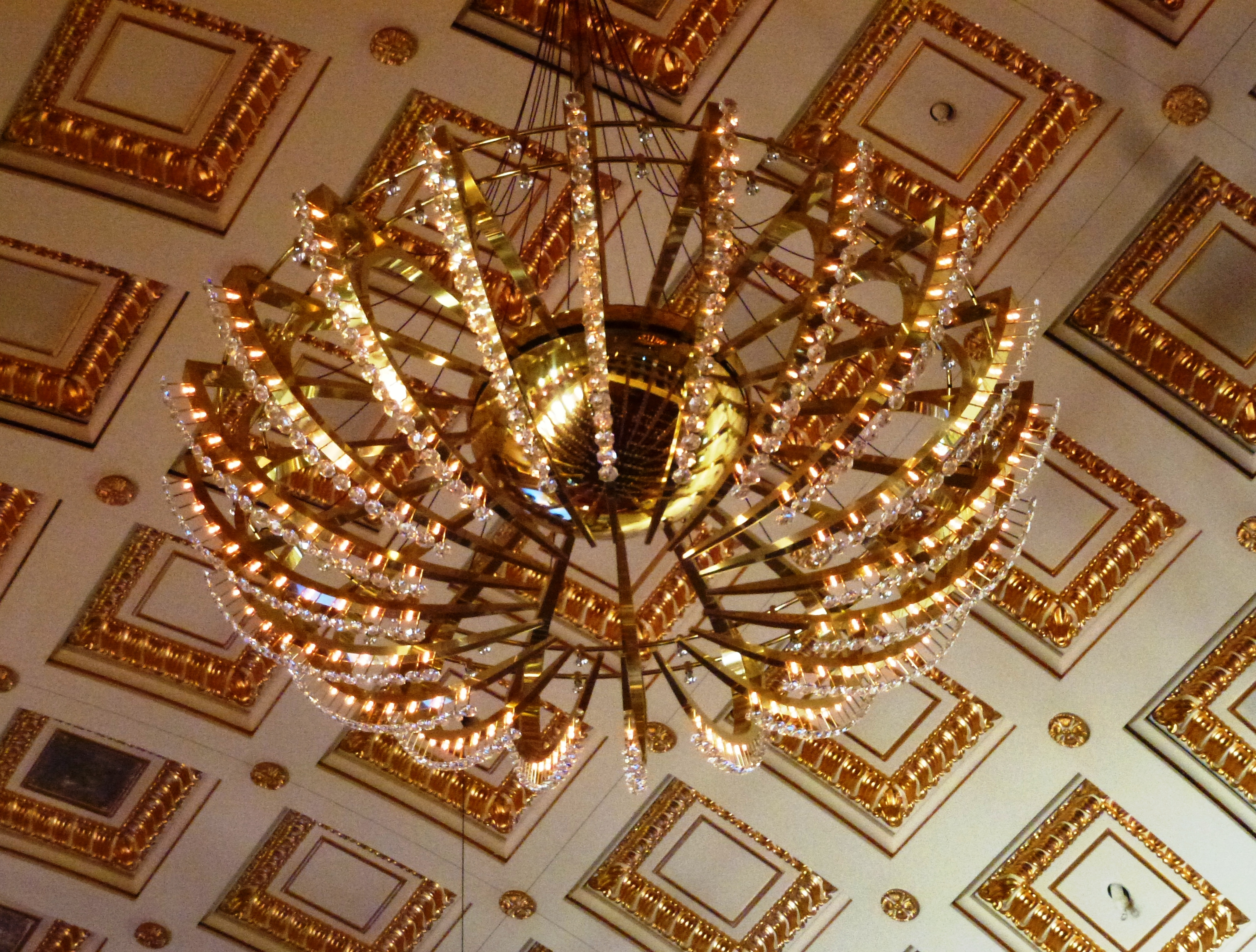 Chandelier at the ceiling of Kurhaus Baden-Baden, Germany